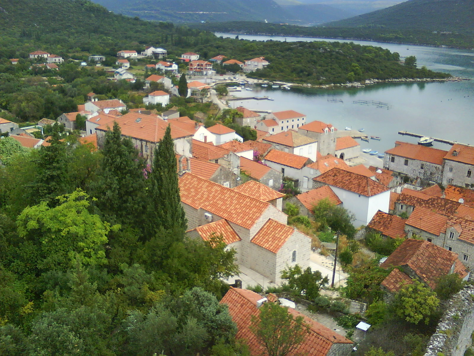 Panorama photos of Mali Ston